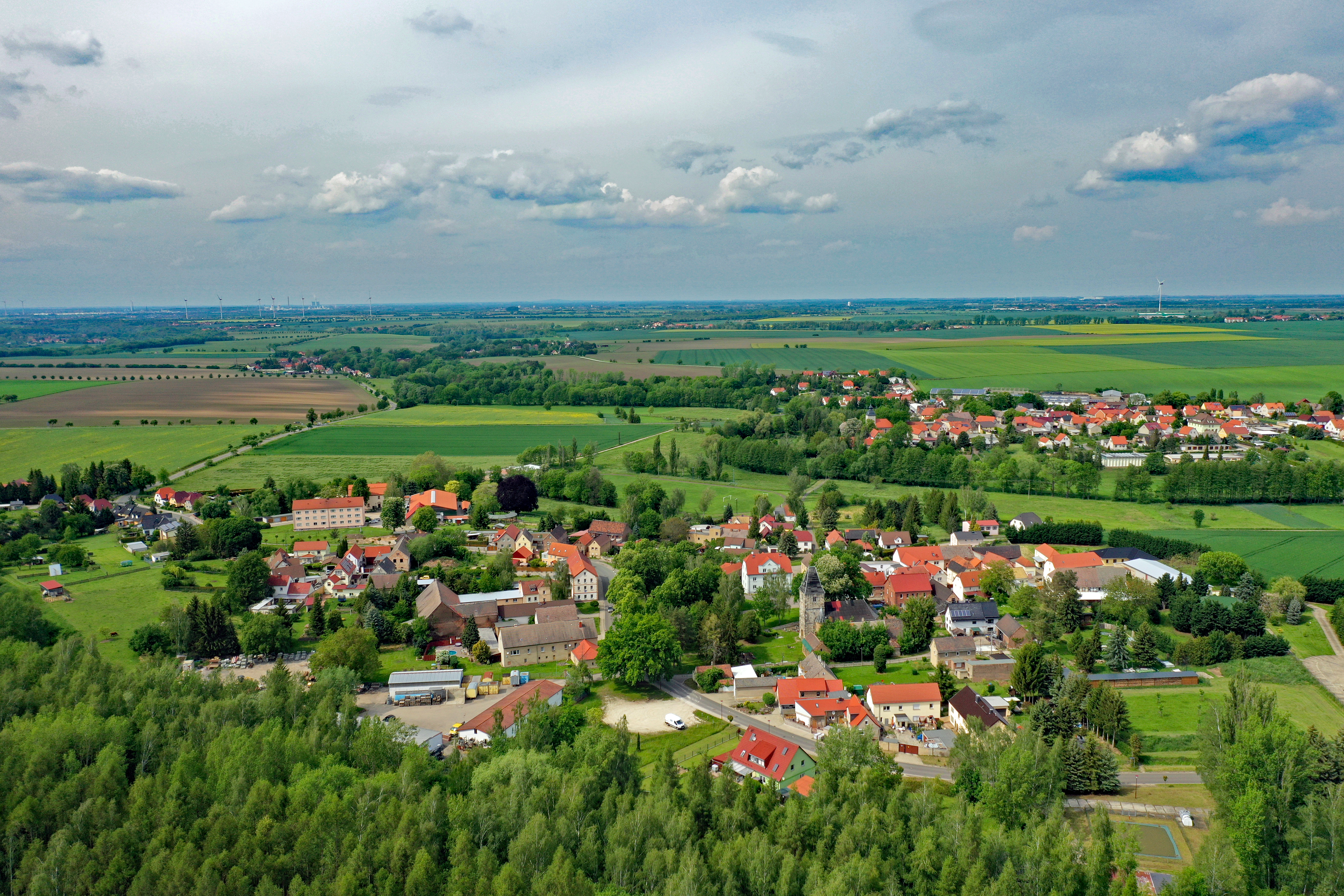 Göthewitz (Lützen, Saxony-Anhalt, Germany)